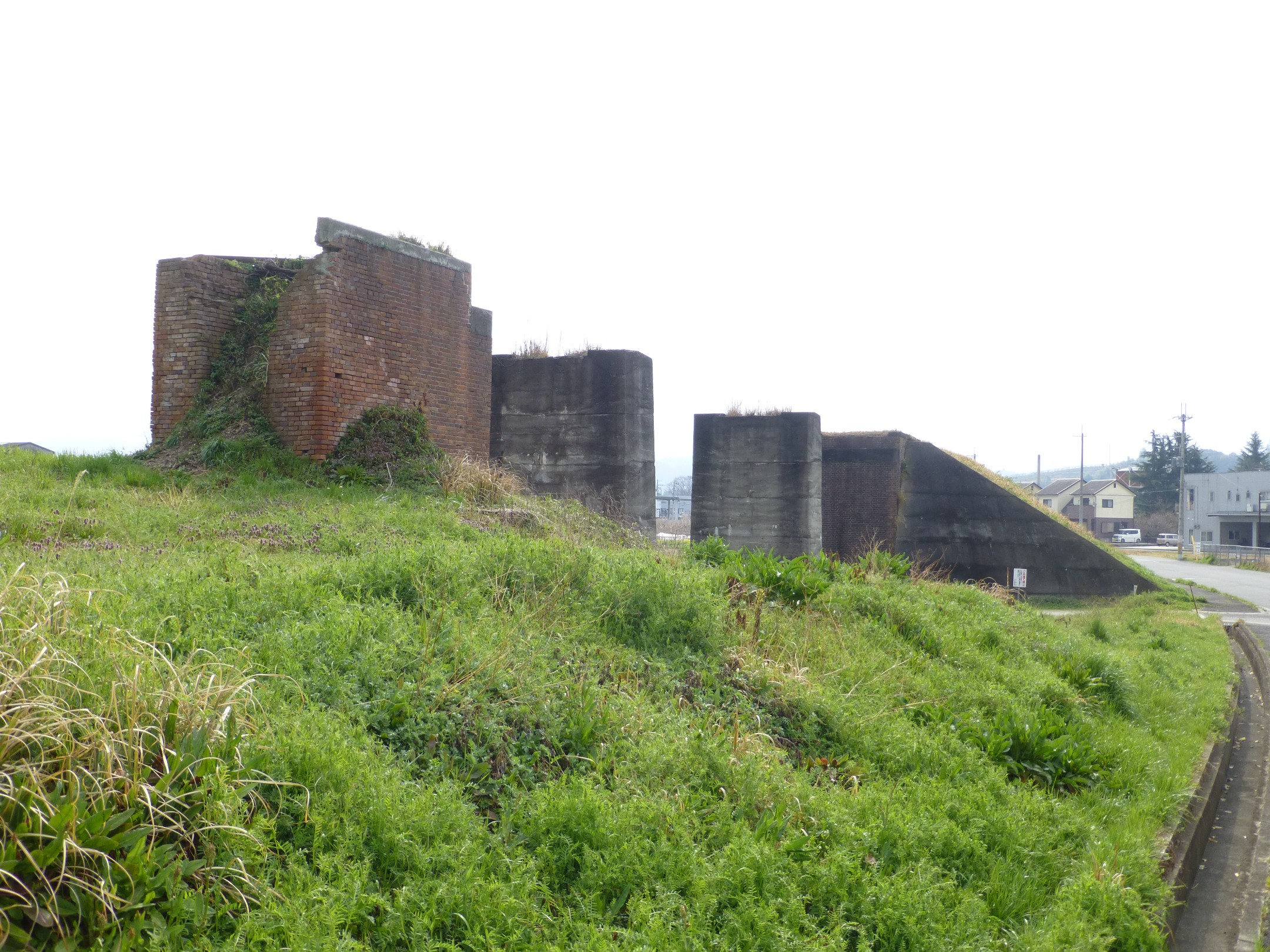 Ruin of freight line to Kawabata freight station, Gojo, Nara, Japan.